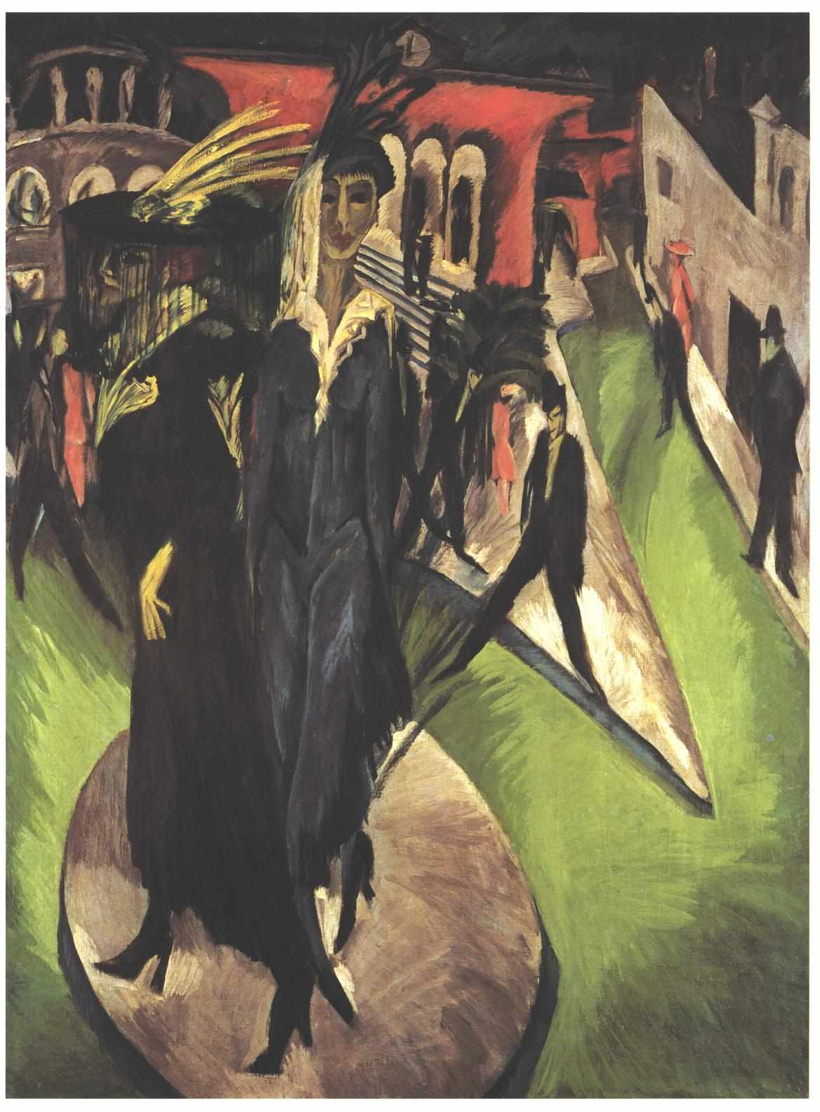 Postdamerplatz